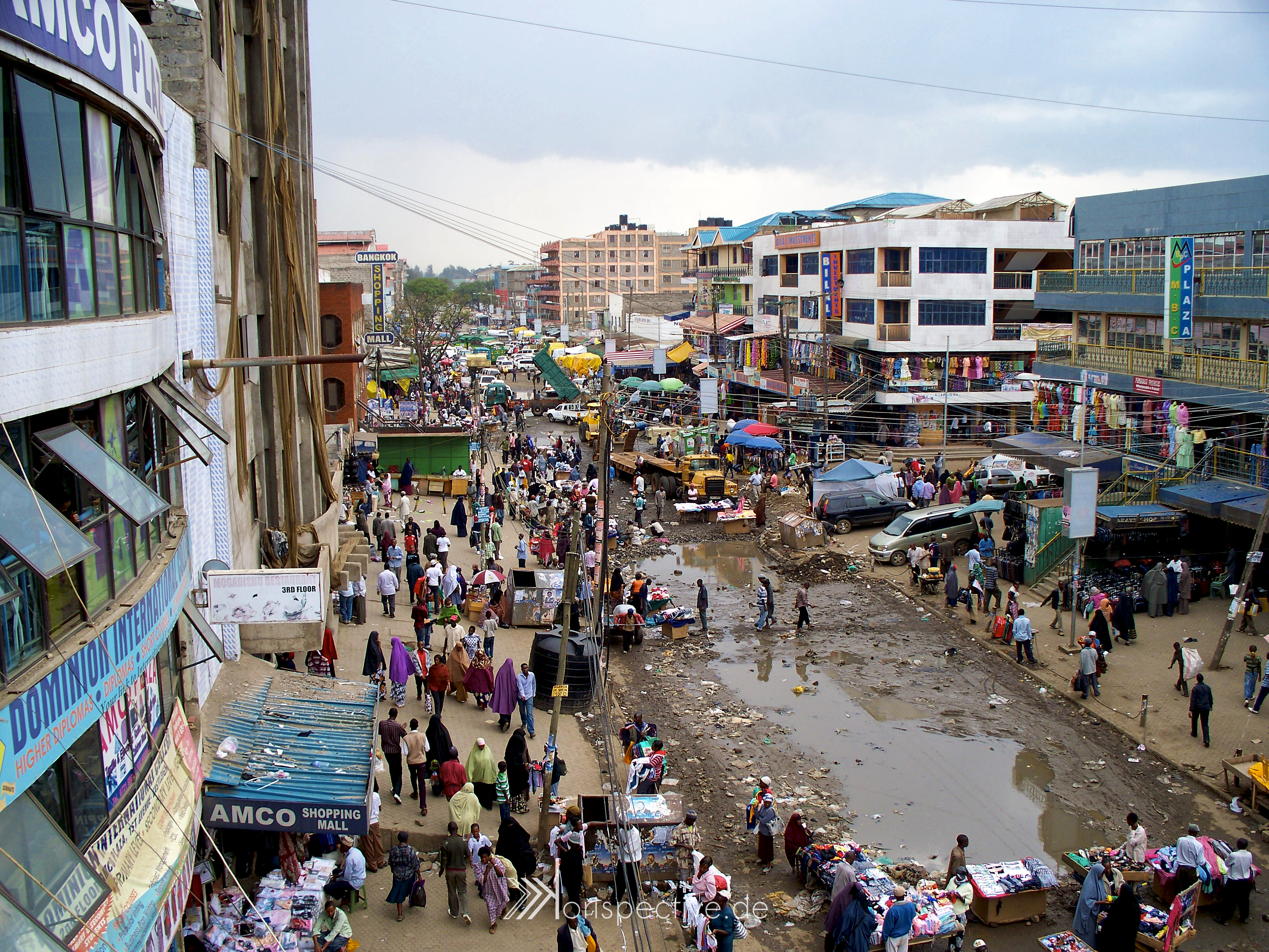 Eastleigh, Nairobi